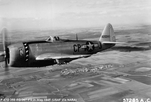 Republic P-47D-28-RE Thunderbolt Serial 44-20244 of the 367th Fighter Squadron, 358th Fighter Group, based at RAF High Halden, England.